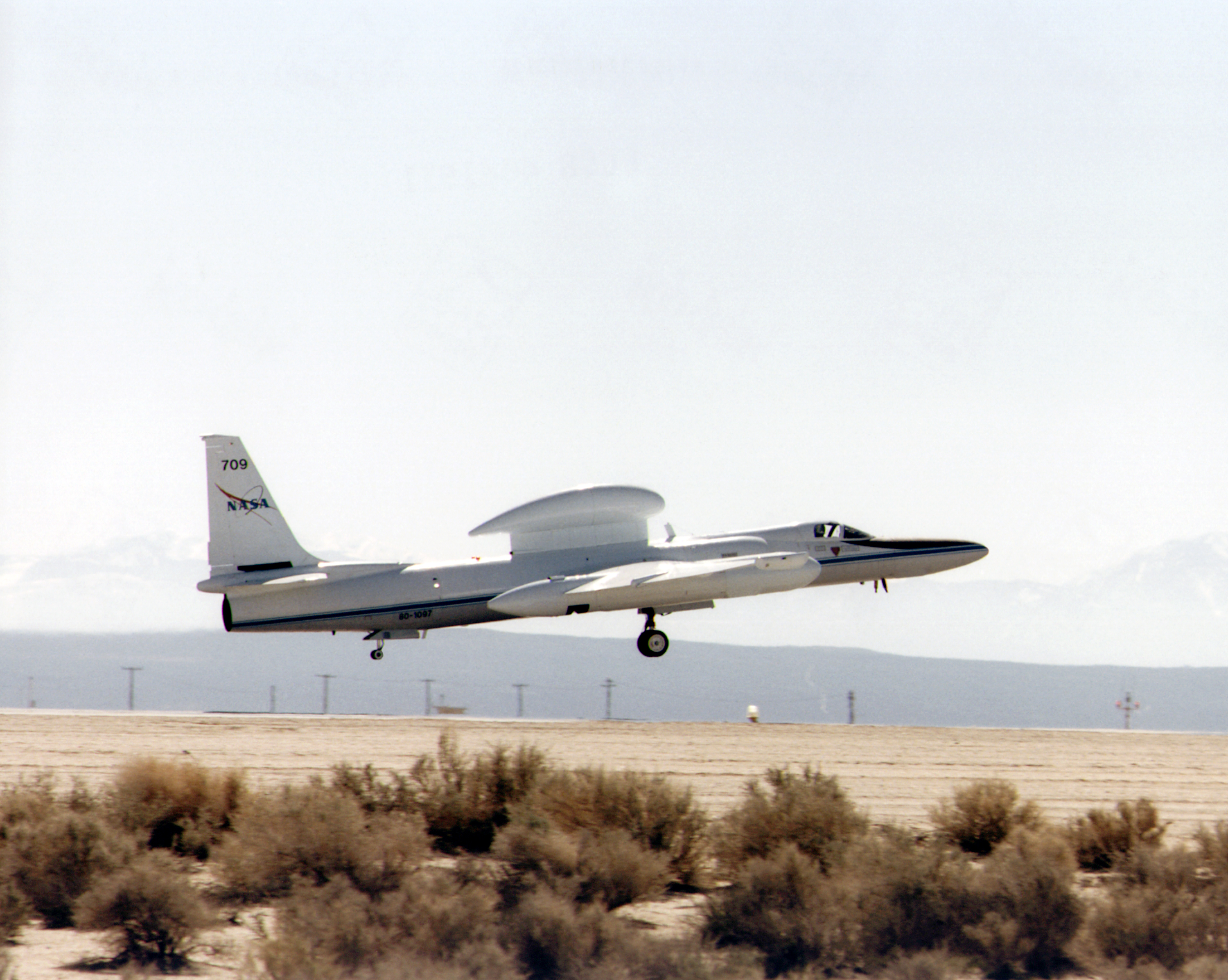 Lockheed ER-2 #709 taking off from NASA Dryden